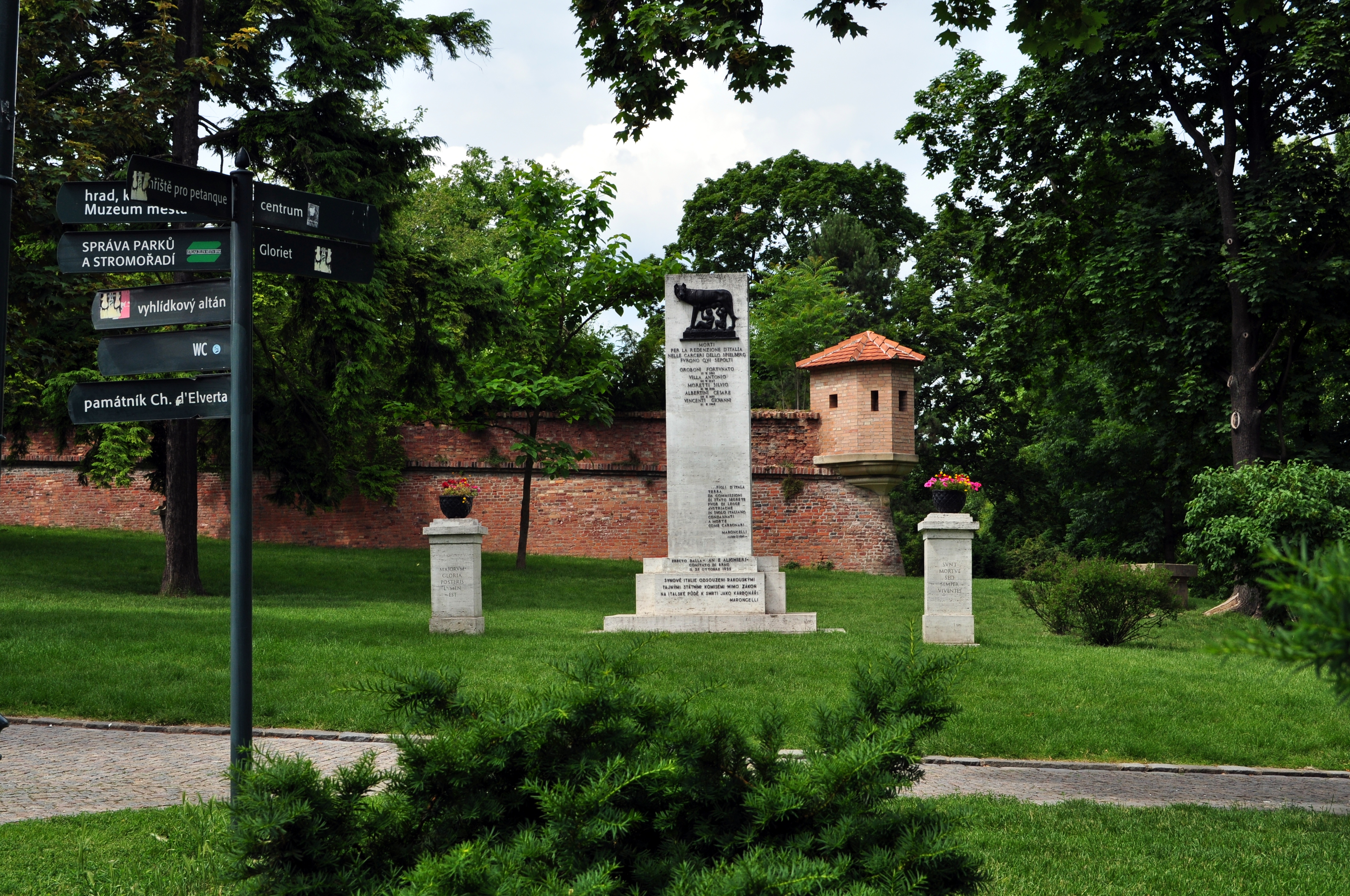 Memorial to Italian Carbonari imprisoned at Špilberk Castle in Brno, Czech Republic, who died and were buried here.